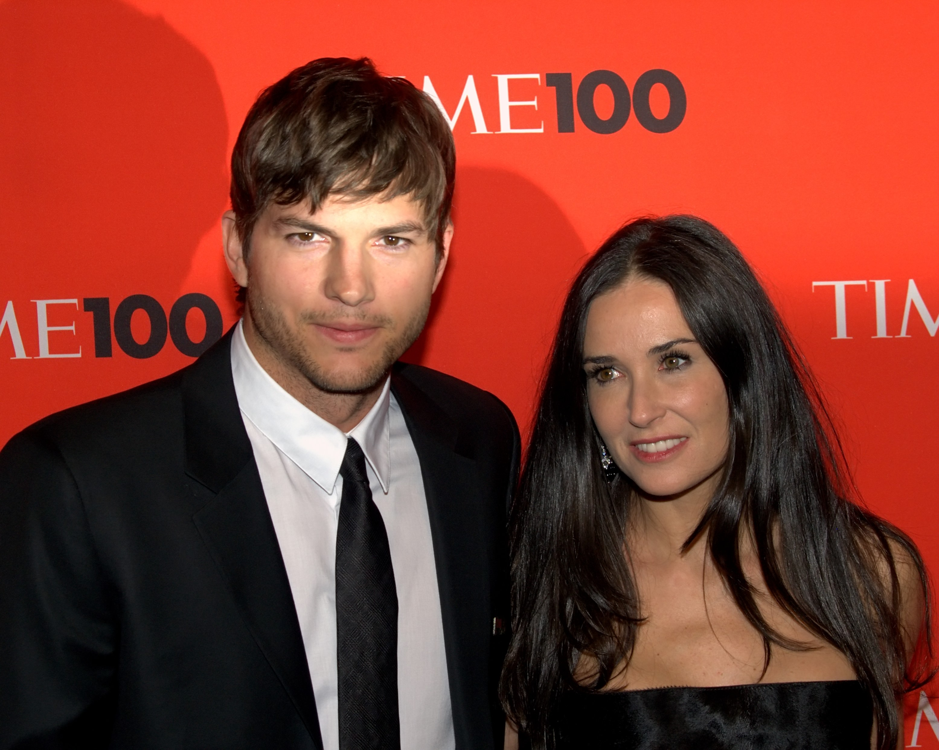 Ashton Kutcher and Demi Moore at the 2010 Time 100.